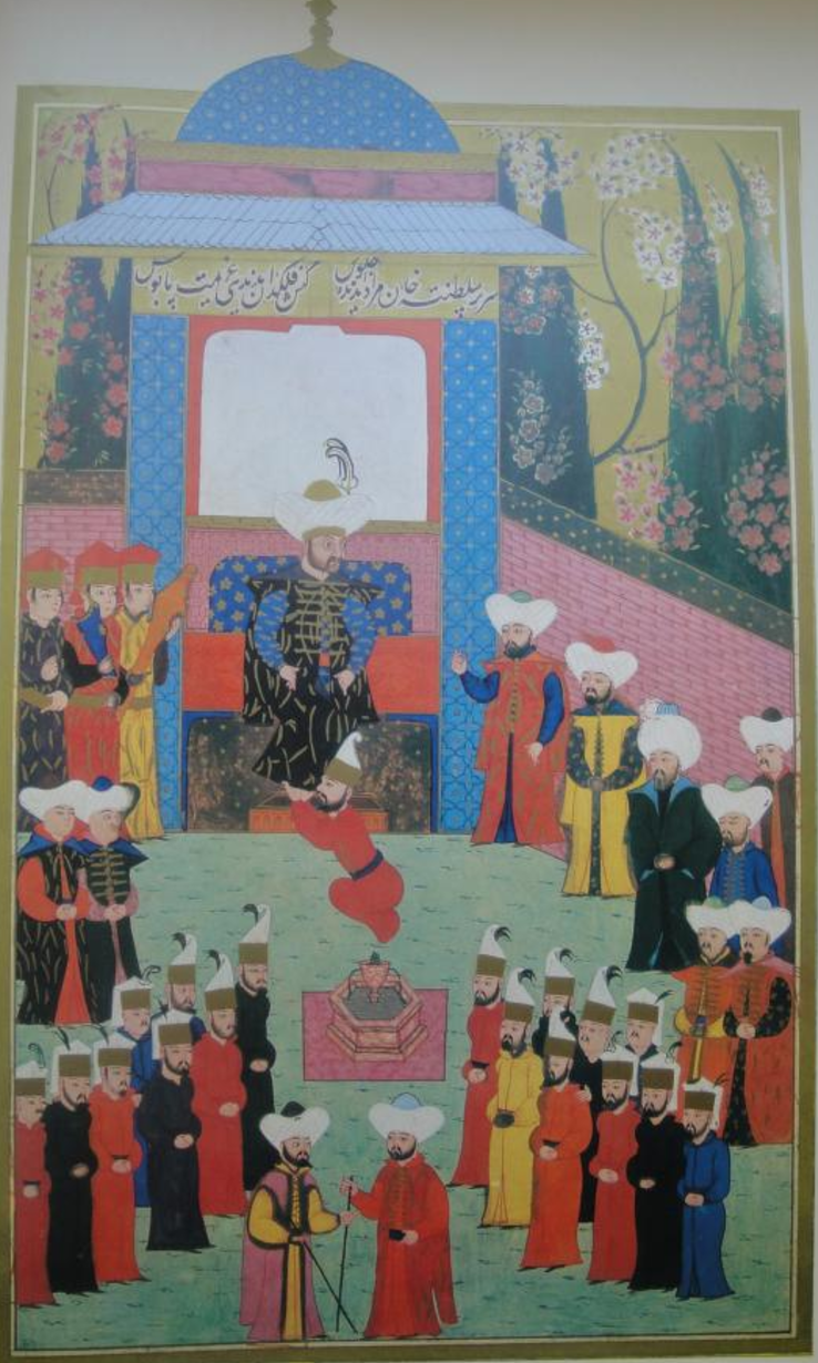 Murad I